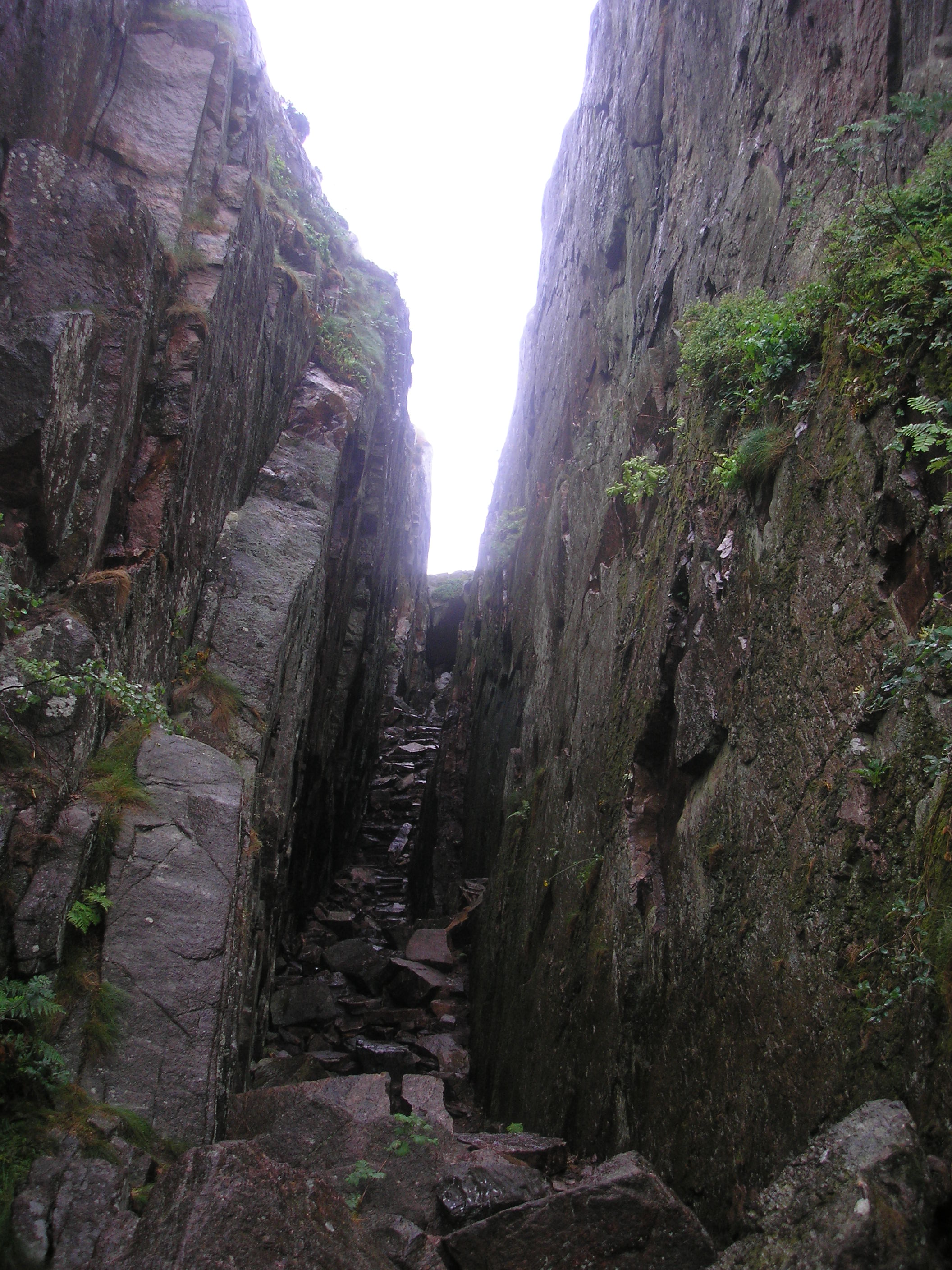 Kungsklyftan near Fjällbacka (Sweden)